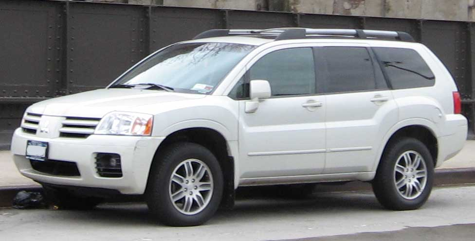 2004-2005 Mitsubishi Endeavor photographed in New York City, USA.